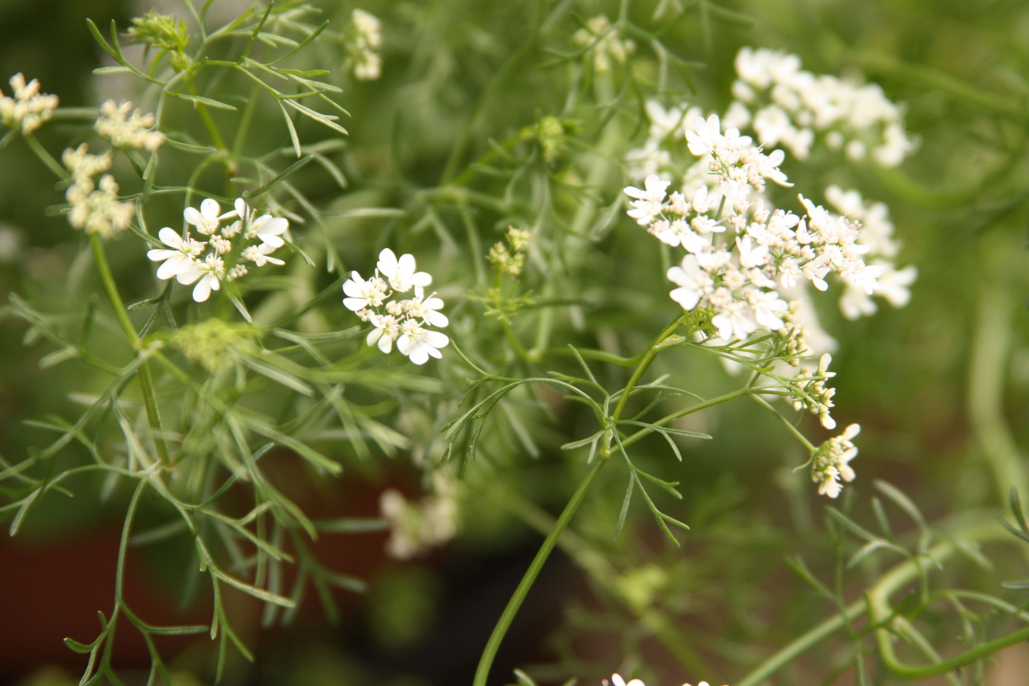 coriander in bloom